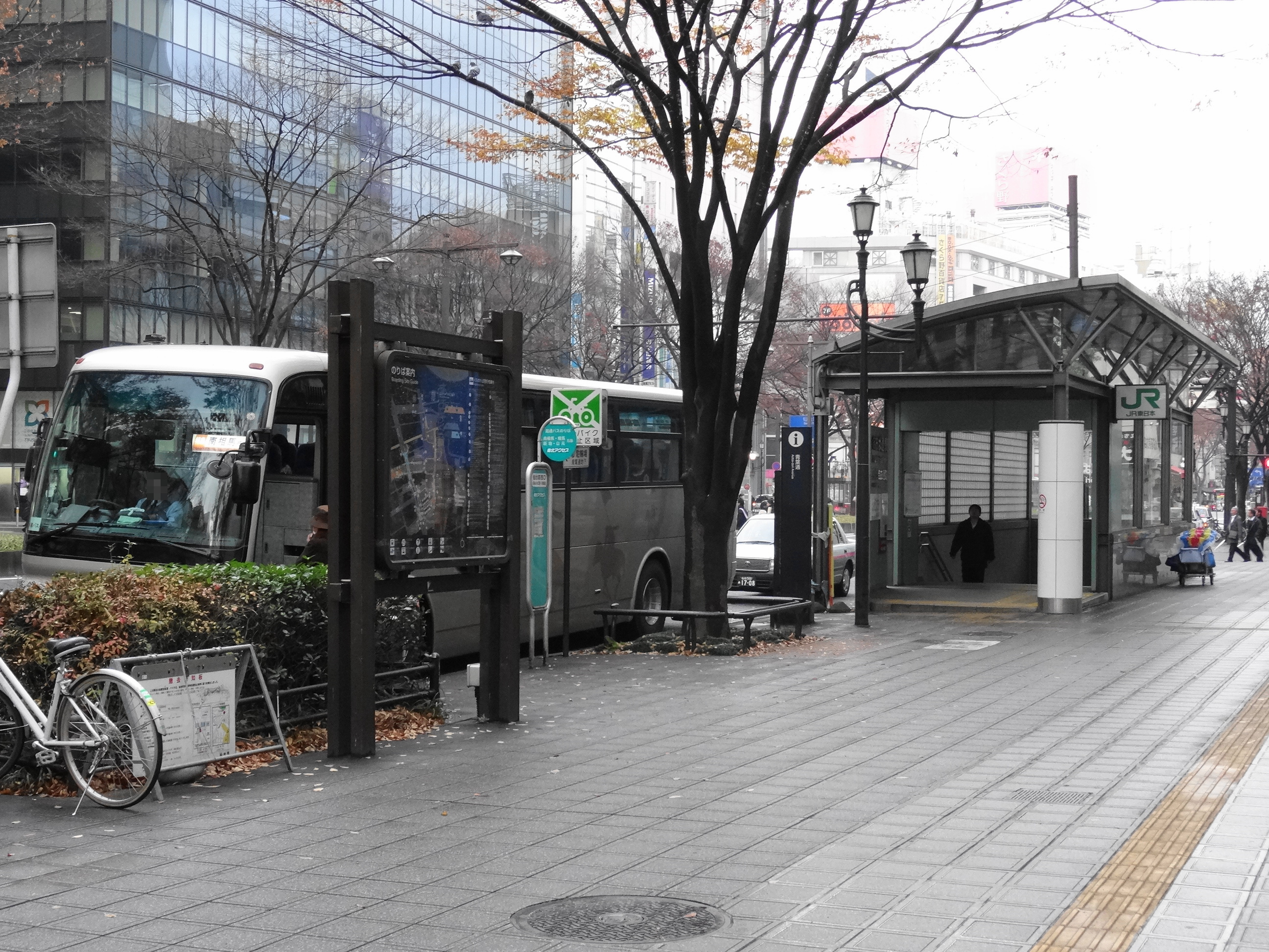 Sendai Station bus stop